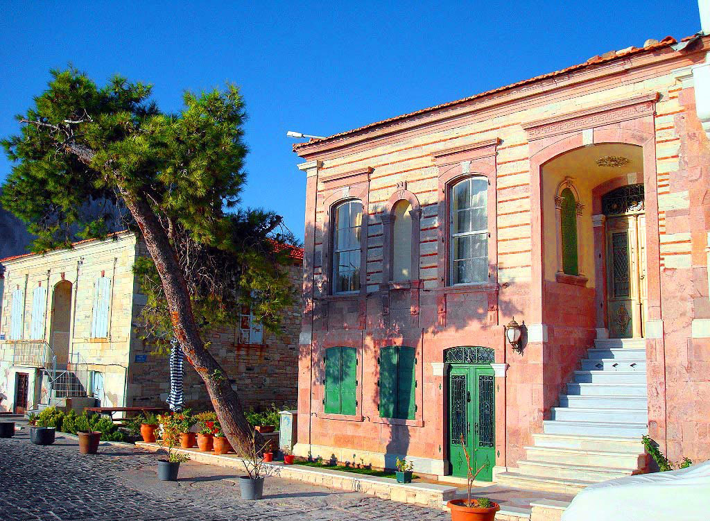 Foça (ancient Phocaea) near İzmir on Turkey's Aegean coast